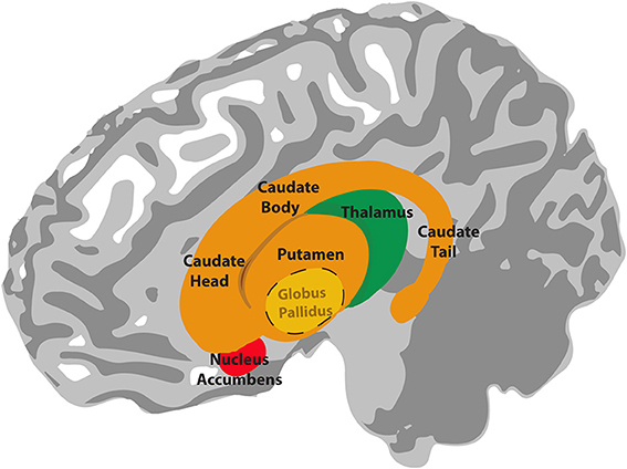 Illustration of the anatomy of the basal ganglia. The globus pallidus lies inside the putamen. The thalamus is located underneath the basal ganglia, in the medial position of the brain.